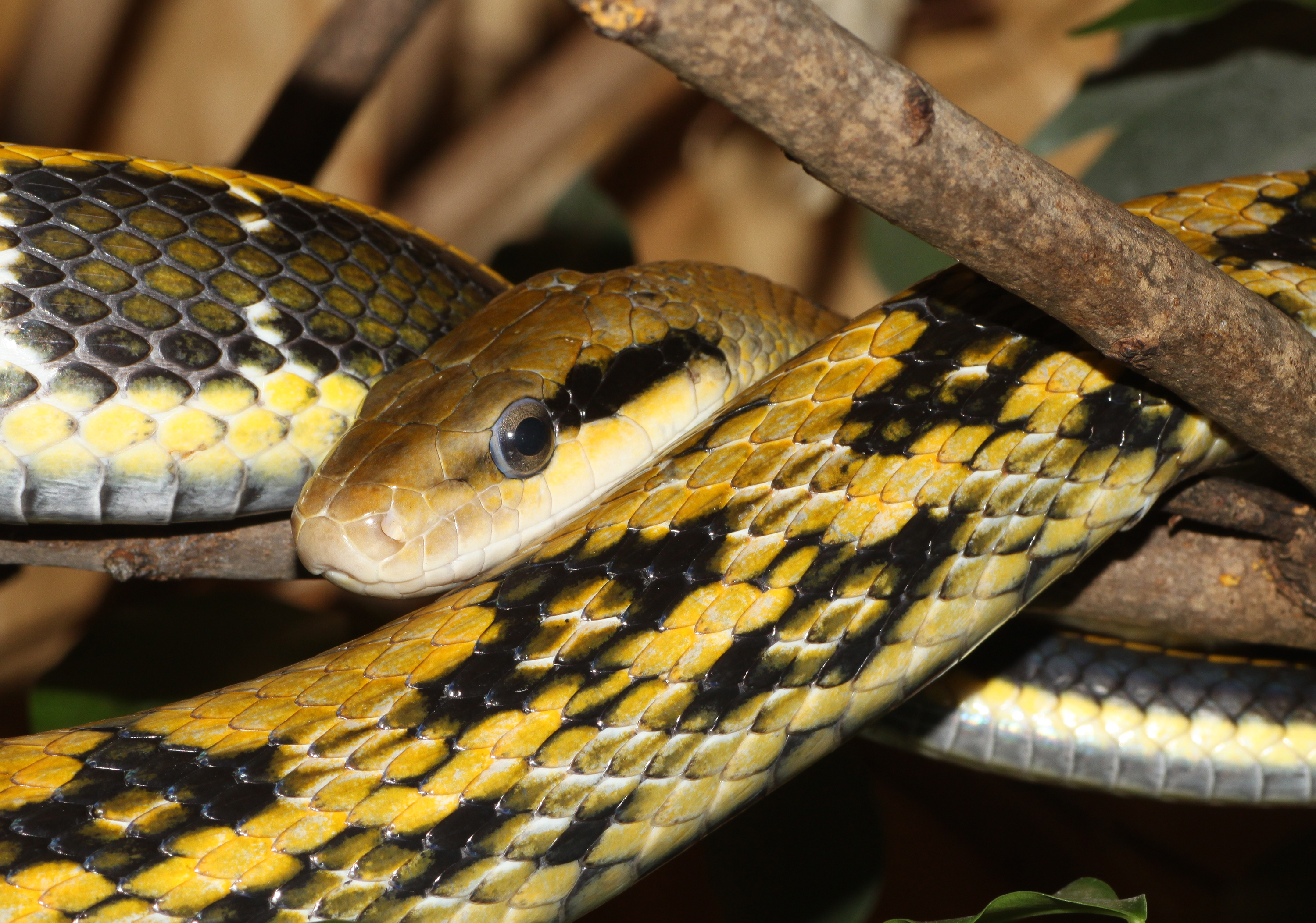 Beauty Rat Snake, Orthriophis taeniurus, Family: Colubridae, Location: Germany, Neu-Ulm, Reptilienzoo